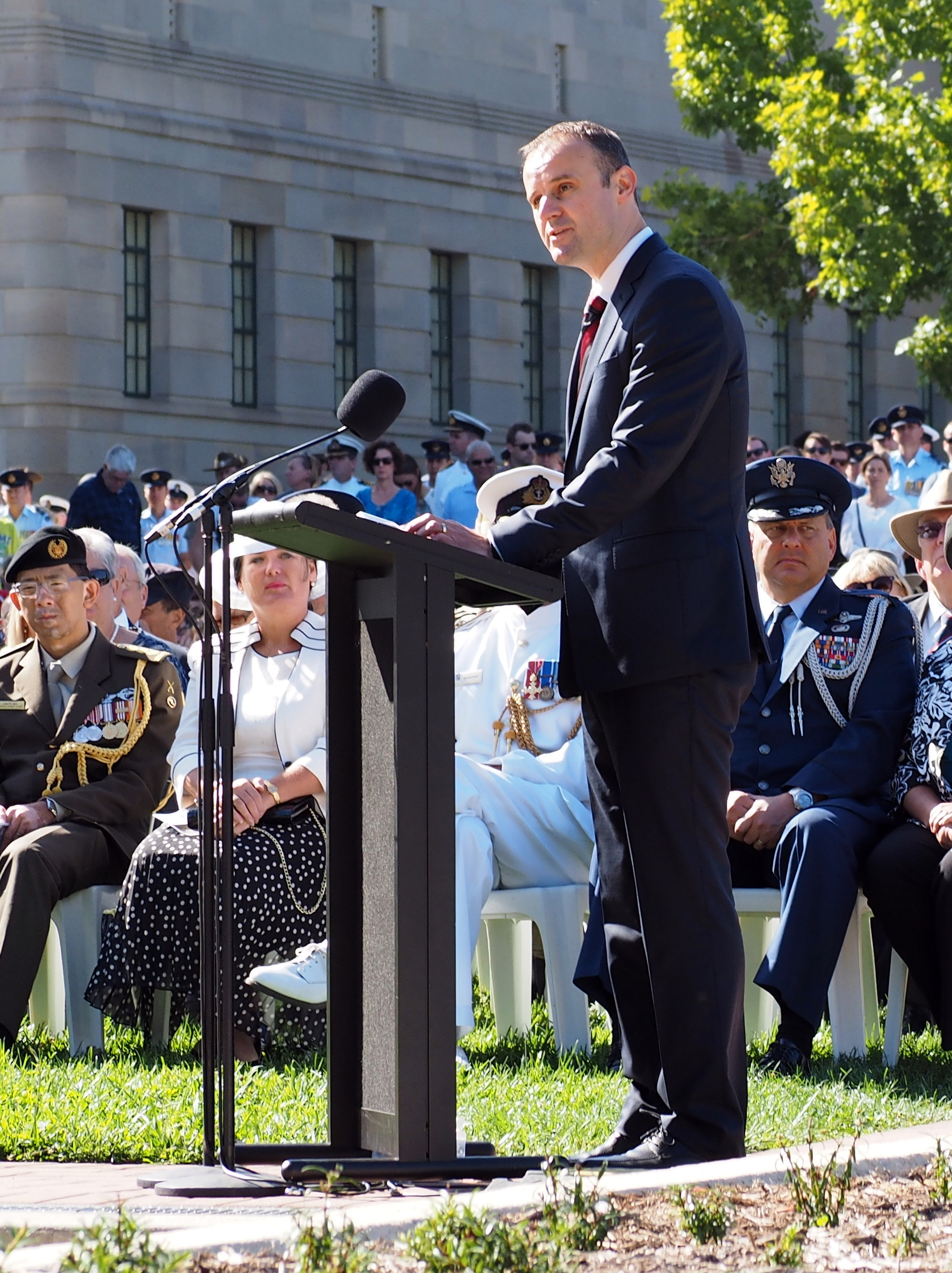 ACT Chief Minister Andrew Barr speaking at the Canberra Operation Slipper Welcome Home Ceremony